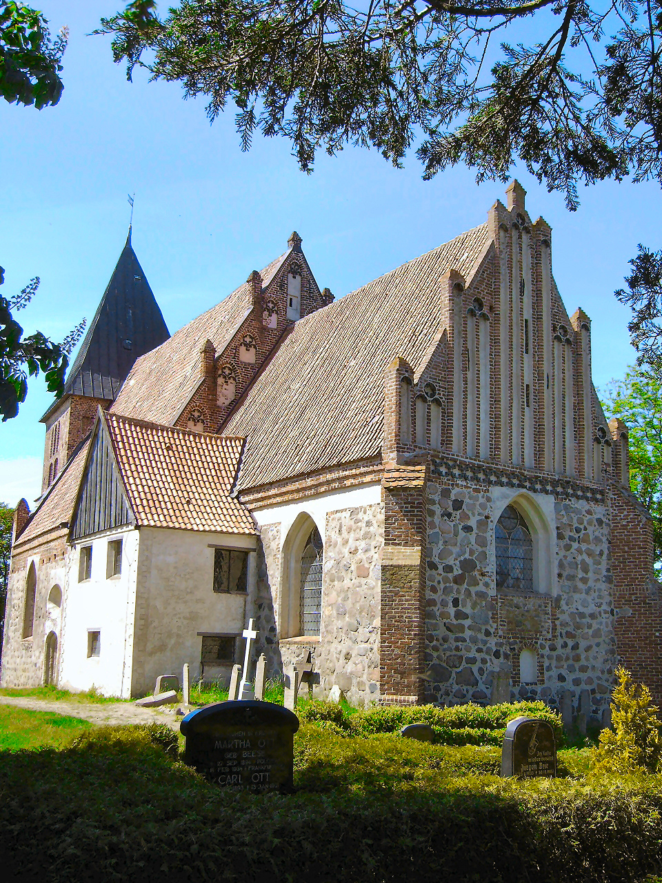 The church of Bobbin, viewed from East.